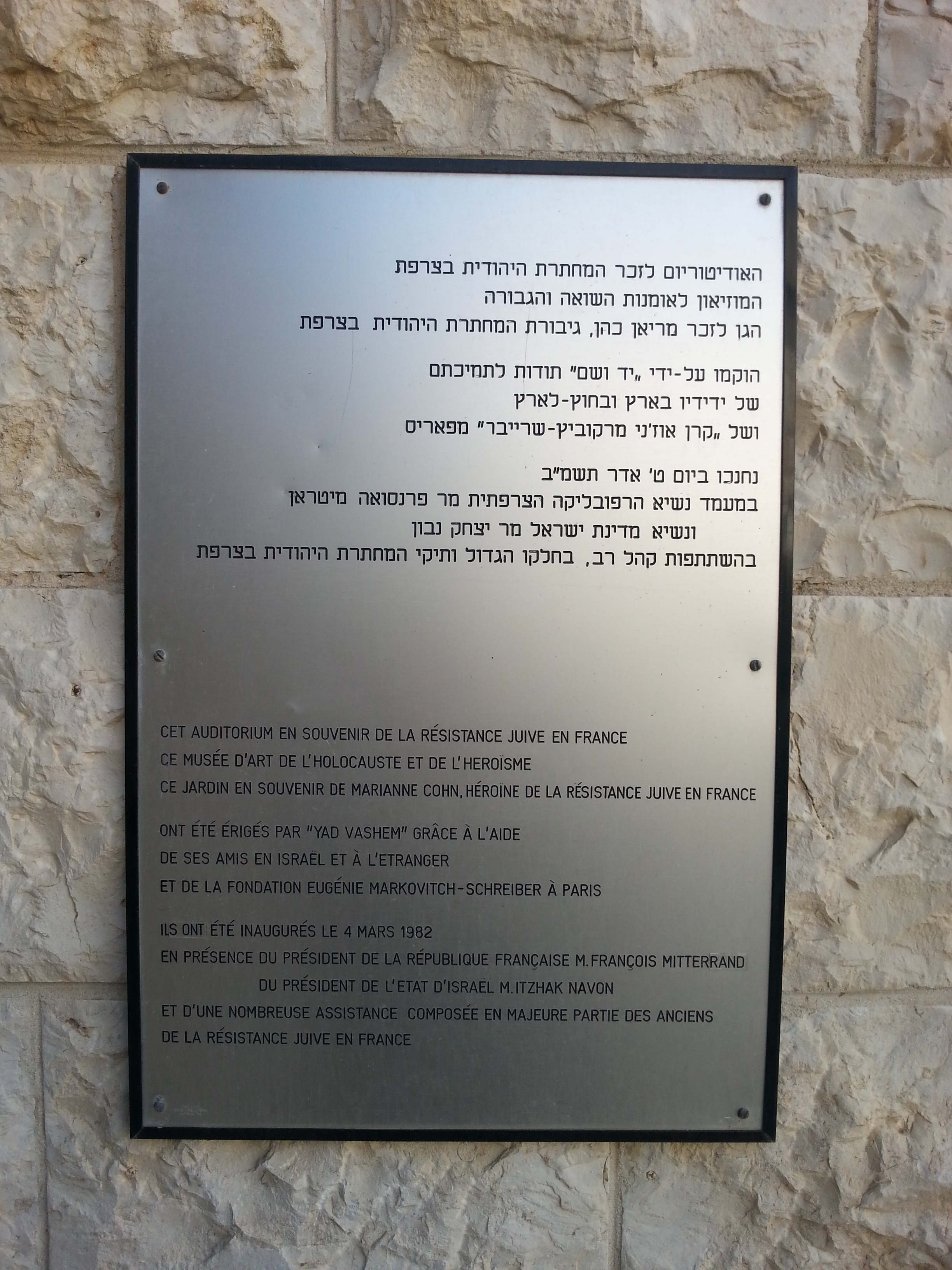 Signboard at the entrance to the auditorium in memory of the Jewish underground resistance in France. Yad va Shem.